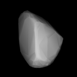 3D convex shape model of 5436 Eumelos, computed using light curve inversion techniques. J. Hanuš, J. Ďurech, M. Brož, B. D. Warner (June 2011). "A study of asteroid pole-latitude distribution based on an extended set of shape models derived by the lightcurve inversion method". Astronomy and Astrophysics 530: A134. ISSN 0004-6361. arXiv